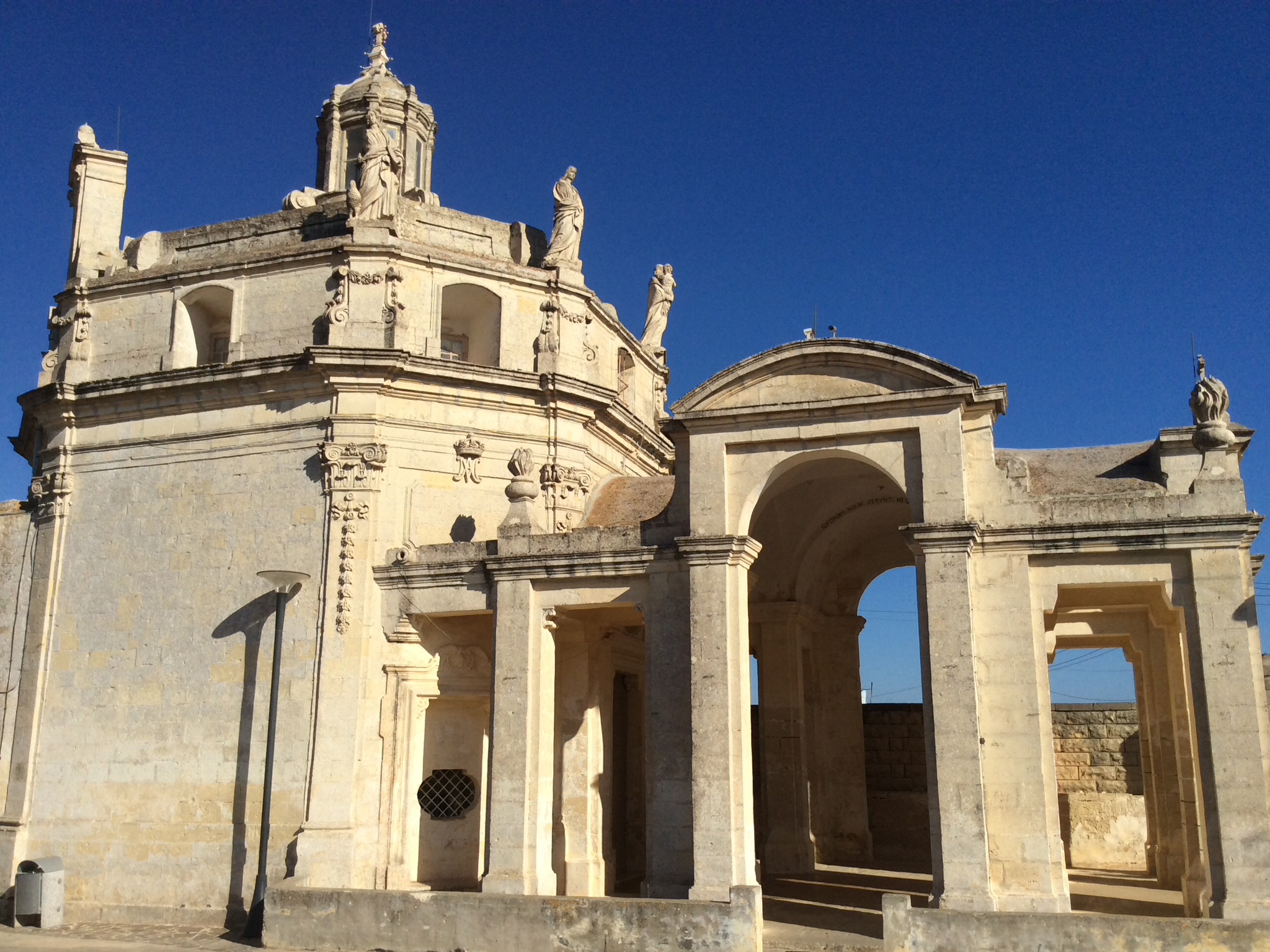 Church of Our Lady of Divine Providence, Siġġiewi (1750)